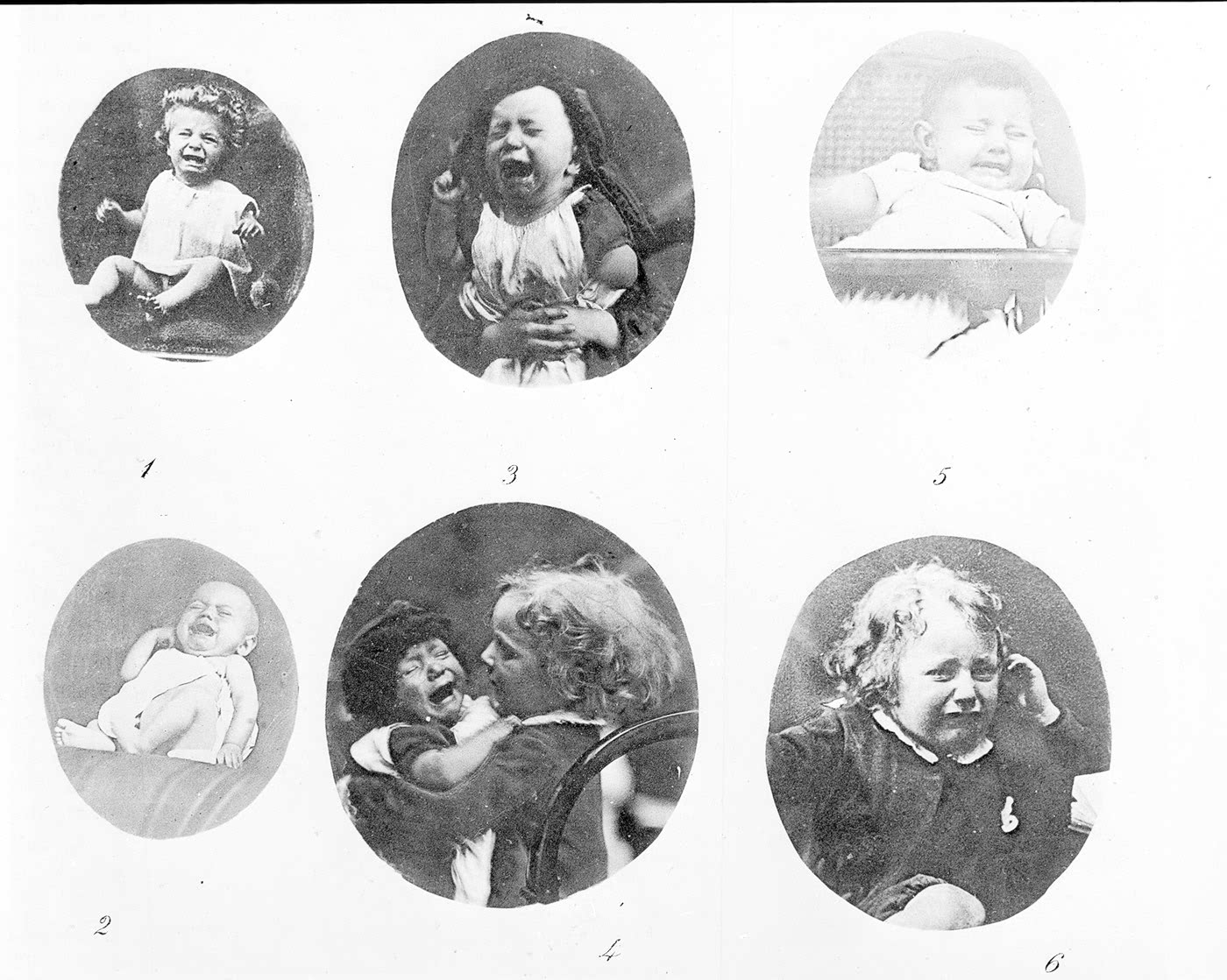 Illustration, plate 1, "The Expression of Emotions in Man and Animals," by Charles Darwin. Published at London, 1872. Courtesy of the Beinecke Rare Book and Manuscript Library, Yale University, New Haven, Conn.